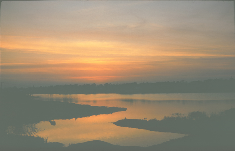 Lake, near to Oknitsy. 80th years.